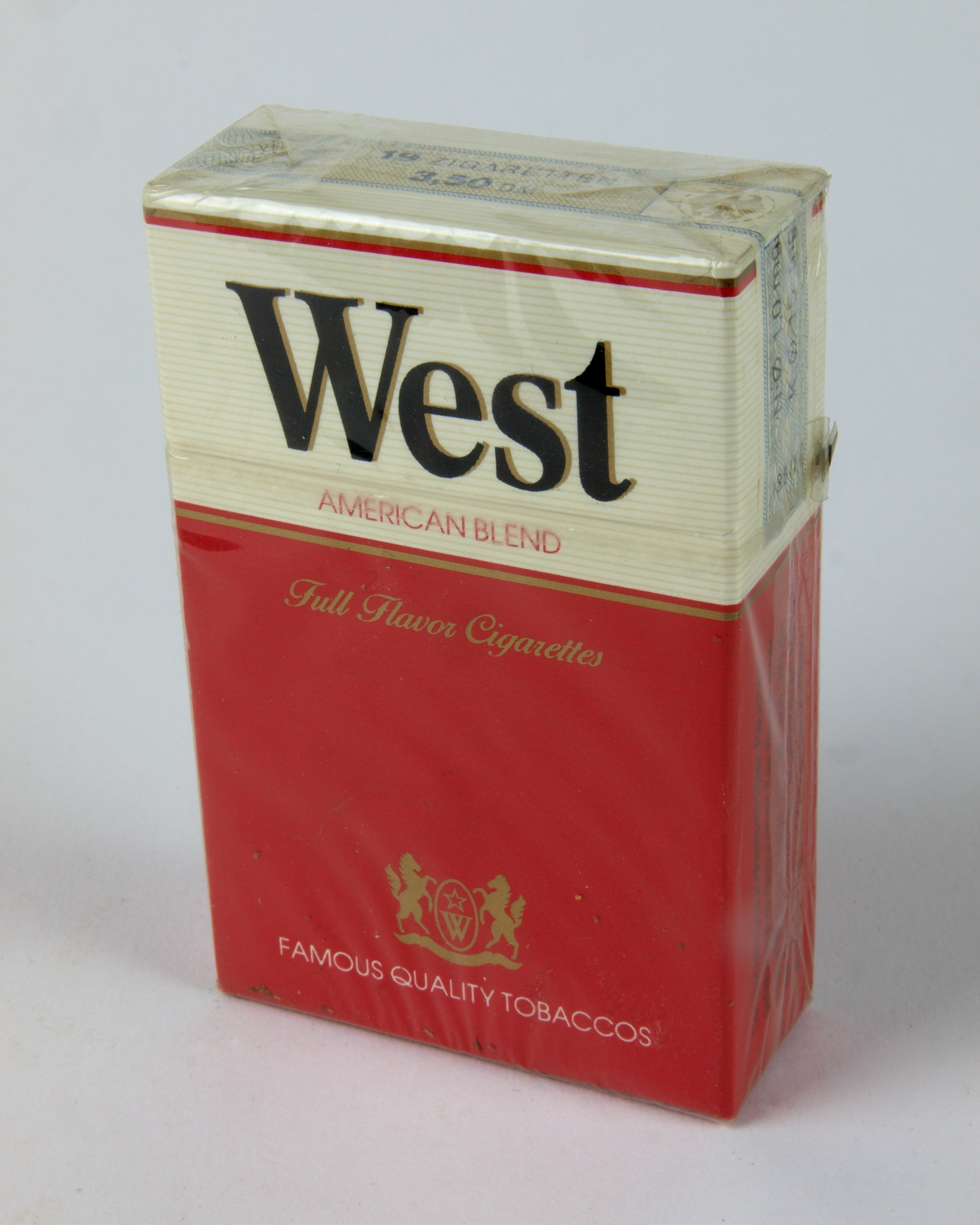 West American Blend. 19 cigarettes. West Park Tobacco USA. Originally packed. Germany 1981. Height: 88 mm (3.46 in). Width: 57 mm (2.24 in). Depth: 23 mm (0.91 in). Weight: 0.0256 kg (0.06 lb)